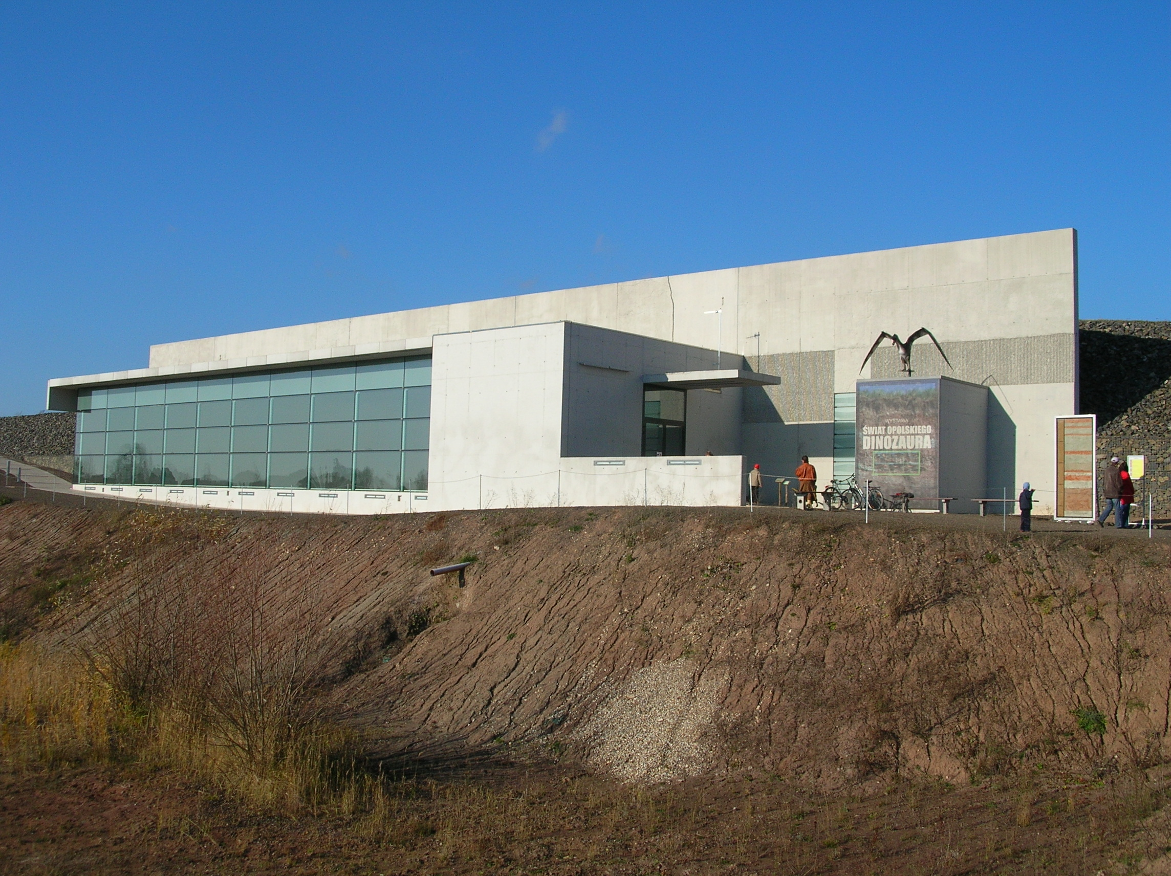 Building of exhibition of the Triassic tetrapods fossils at Krasiejów (Opole Silesia).